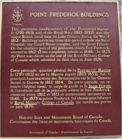 Fort Frederick plaque at Royal Military College of Canada